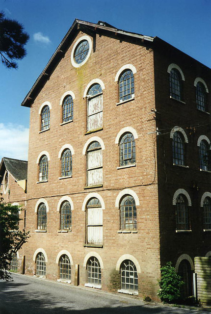 Exeter: Exwick Mill. A plaque on the mill wall reads: ‘Exwick Mill was built by W. R. Mallett. A.D. 1886 on the site of Mills worked by Benedictine Monks of the Priory at Cowick A.D. 1325. Alfred Bodley Engineer, Brook & Ash Builders.’ The mill is privately owned. It was original the Higher Mill; the Lower Mill has been demolished